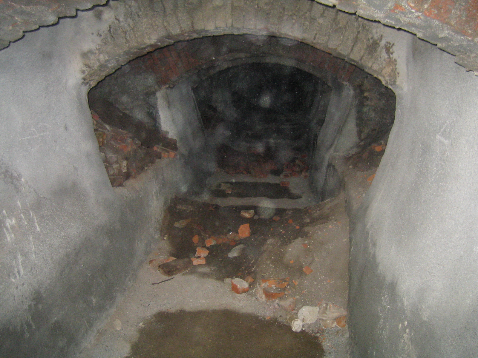 Paniersbunker in Nuremberg